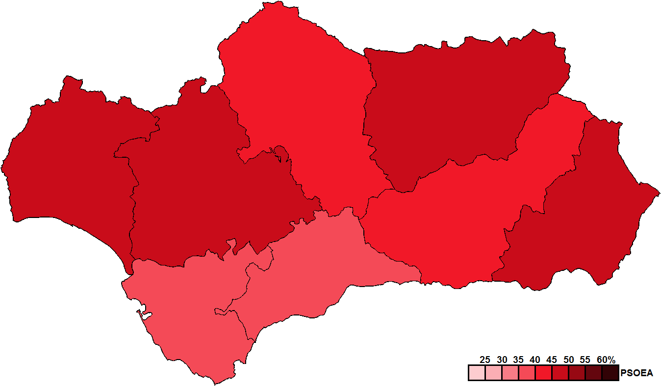 Provincial results for the 1996 Andalusian regional election.